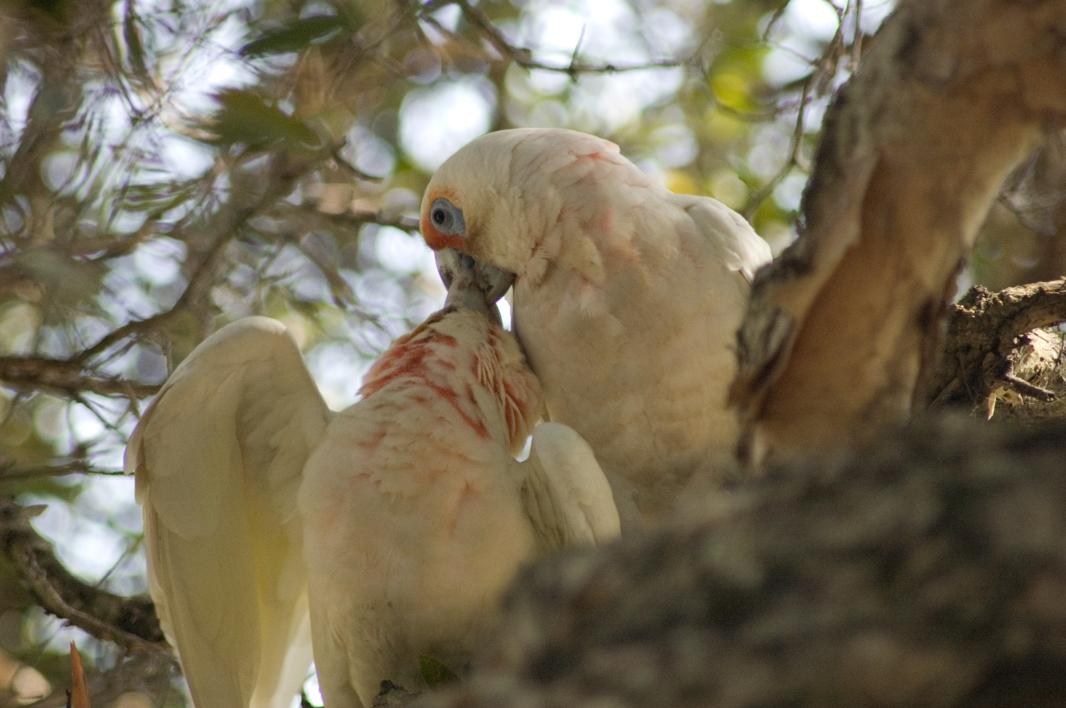 Long-billed Corella (Cacatua tenuirostris) in Sydney, Australia.